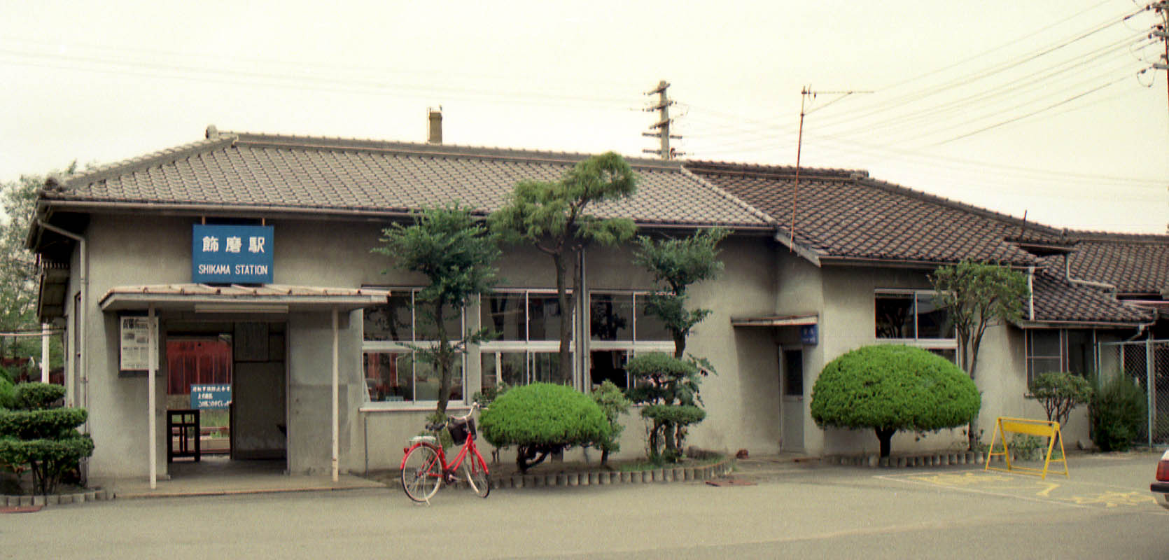 JNR Bantan Line Shikama Station